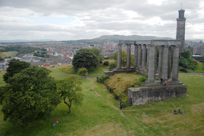 Looking south over Calton Hill in Edinburgh. Photo was taken from a remotely controlled camera lifted by a kite.